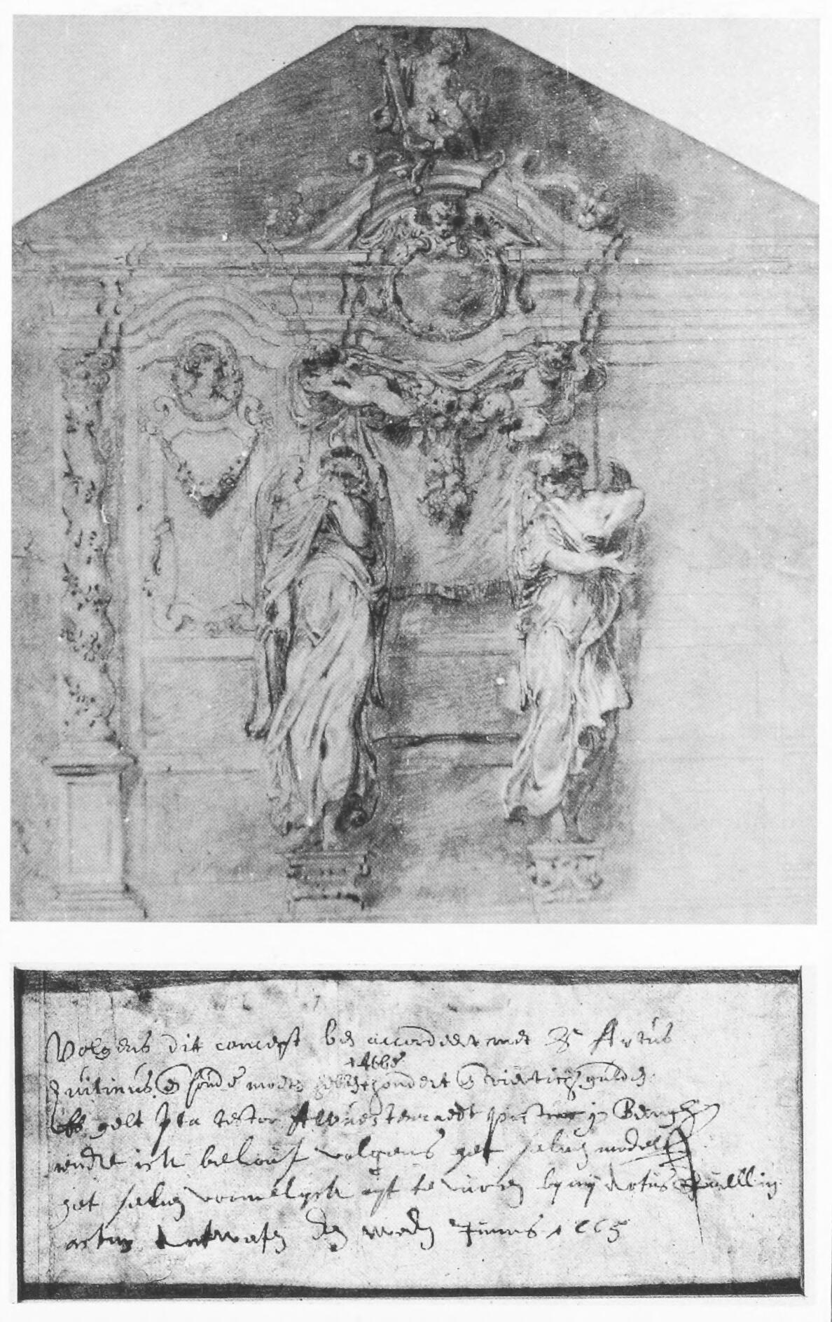 Design drawing for the confessional in the northern transept of the St. Peter in Chains Church, Beringen (Belgium), pen drawing, Artus Quellinus II, 1665, Copenhagen, Statens Museum for Kunst - Kobberstiksammling